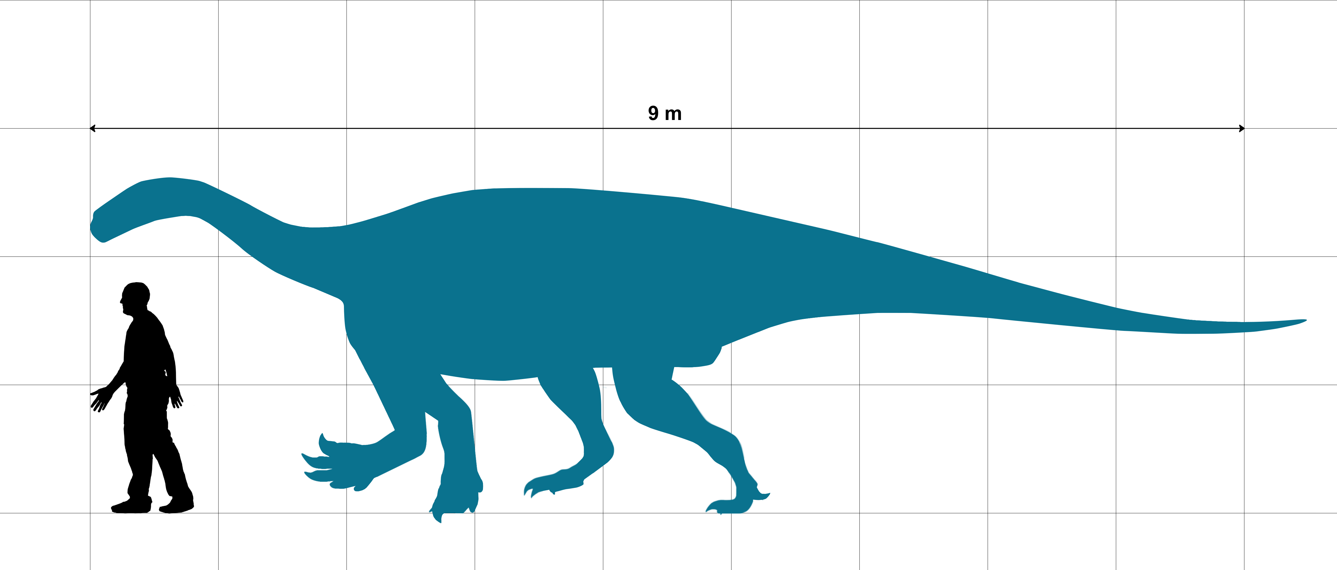 Ledumahadi size chart with human; human silhouette courtesy of Andrew Farke